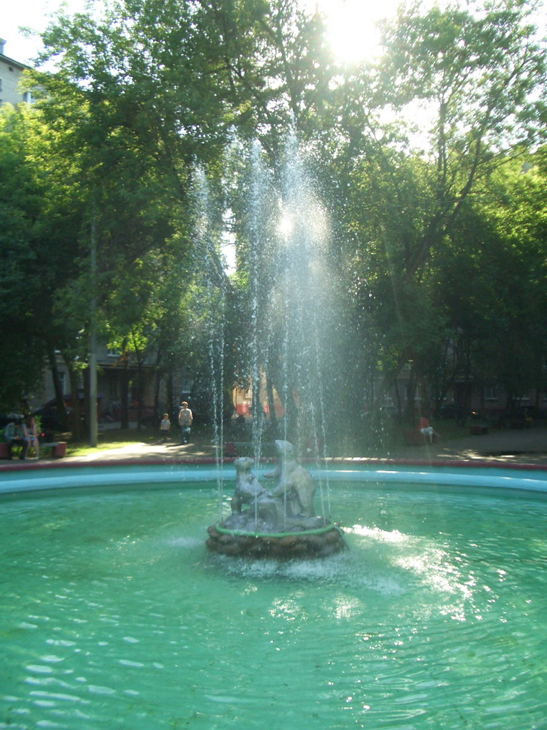 Mini-fountain installed in the courtyard of the house 25 on the Boris Galushkin's street